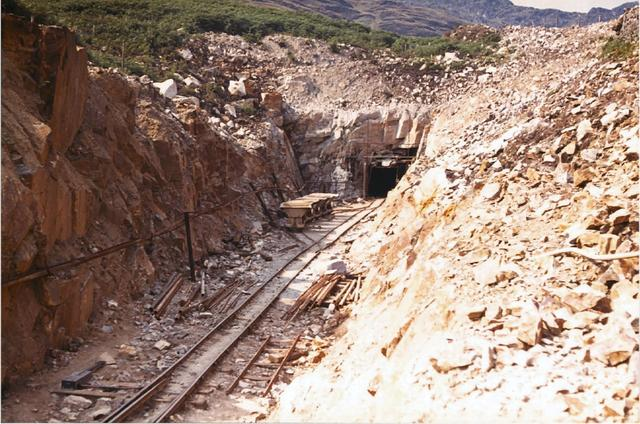 Construction of the new Moelwyn Tunnel of the Ffestiniog Railway near Dduallt.